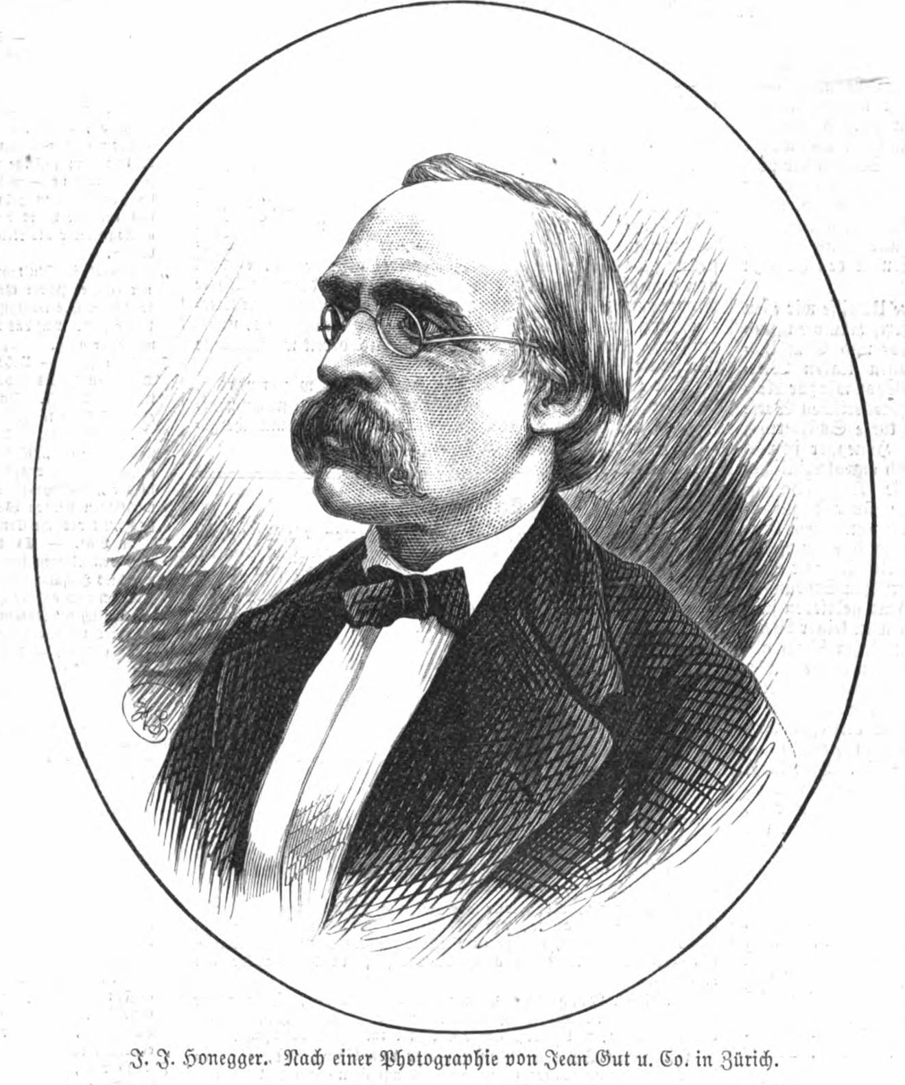 portrait Johann Jakob Honegger 1876